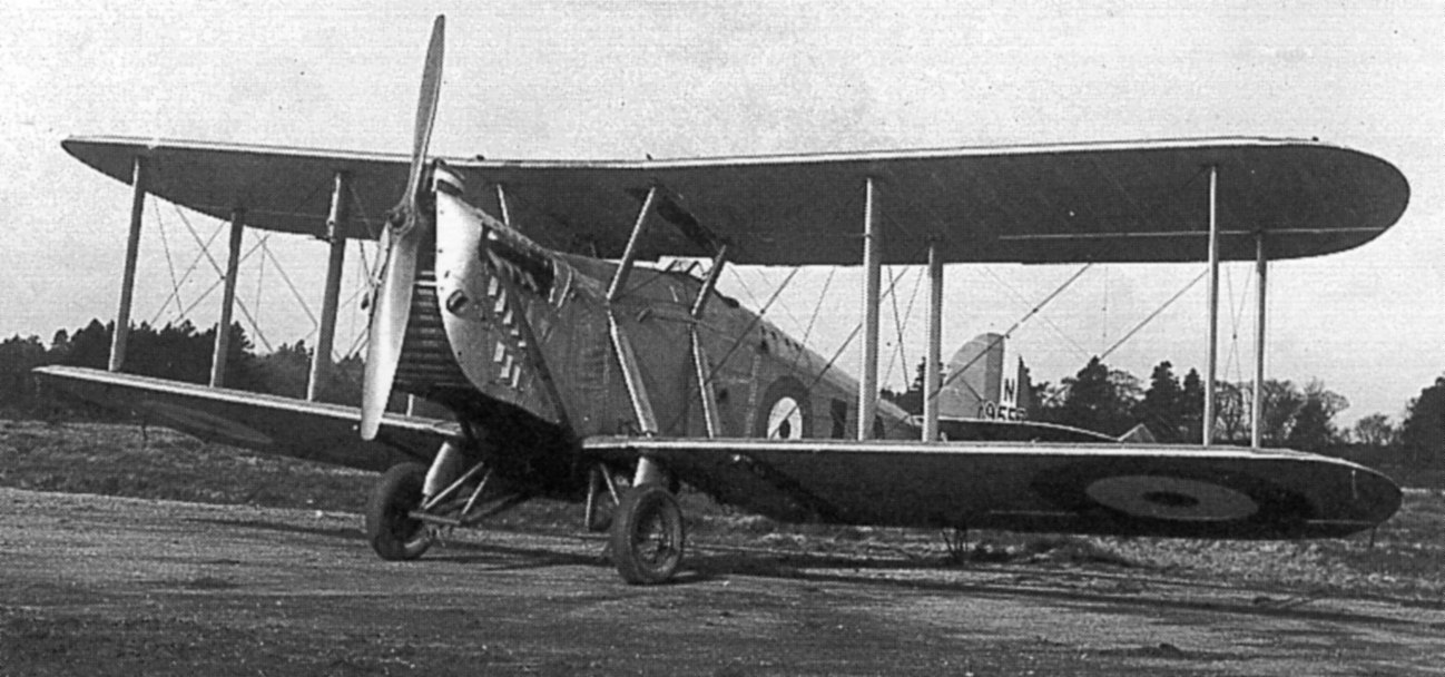 Blackburn T.2 Dart, serial N955?, probably N9557 as this was at Martlesham in early 1925. Incorrectly identified as N139, the first Swift, in the source book.